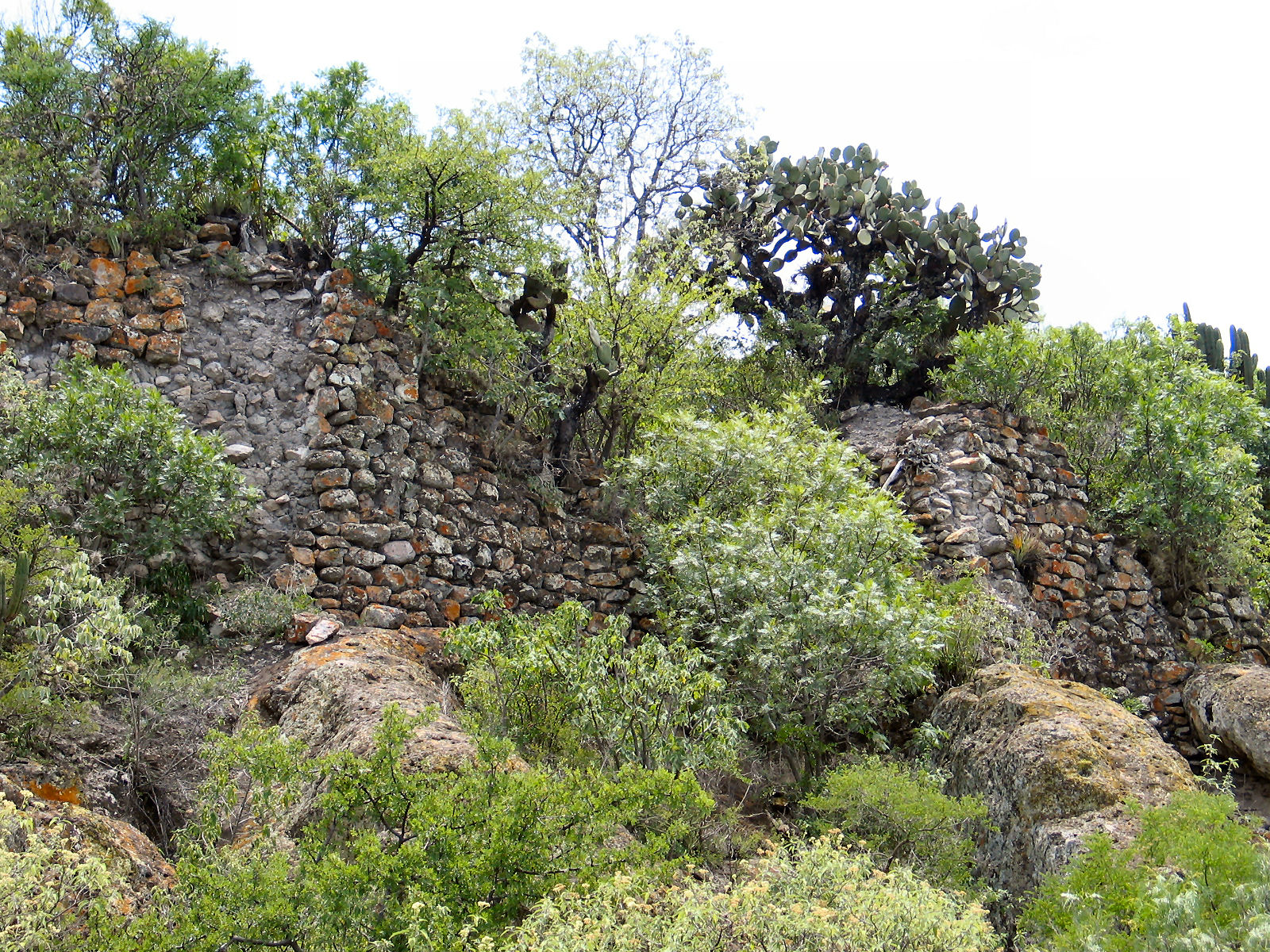 Walls of fortress at Yagul